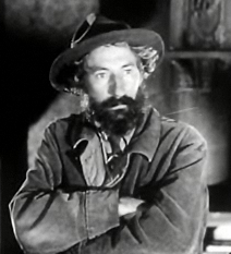 Cropped screenshot of Arthur Hunnicutt from the trailer for the film Split Second.